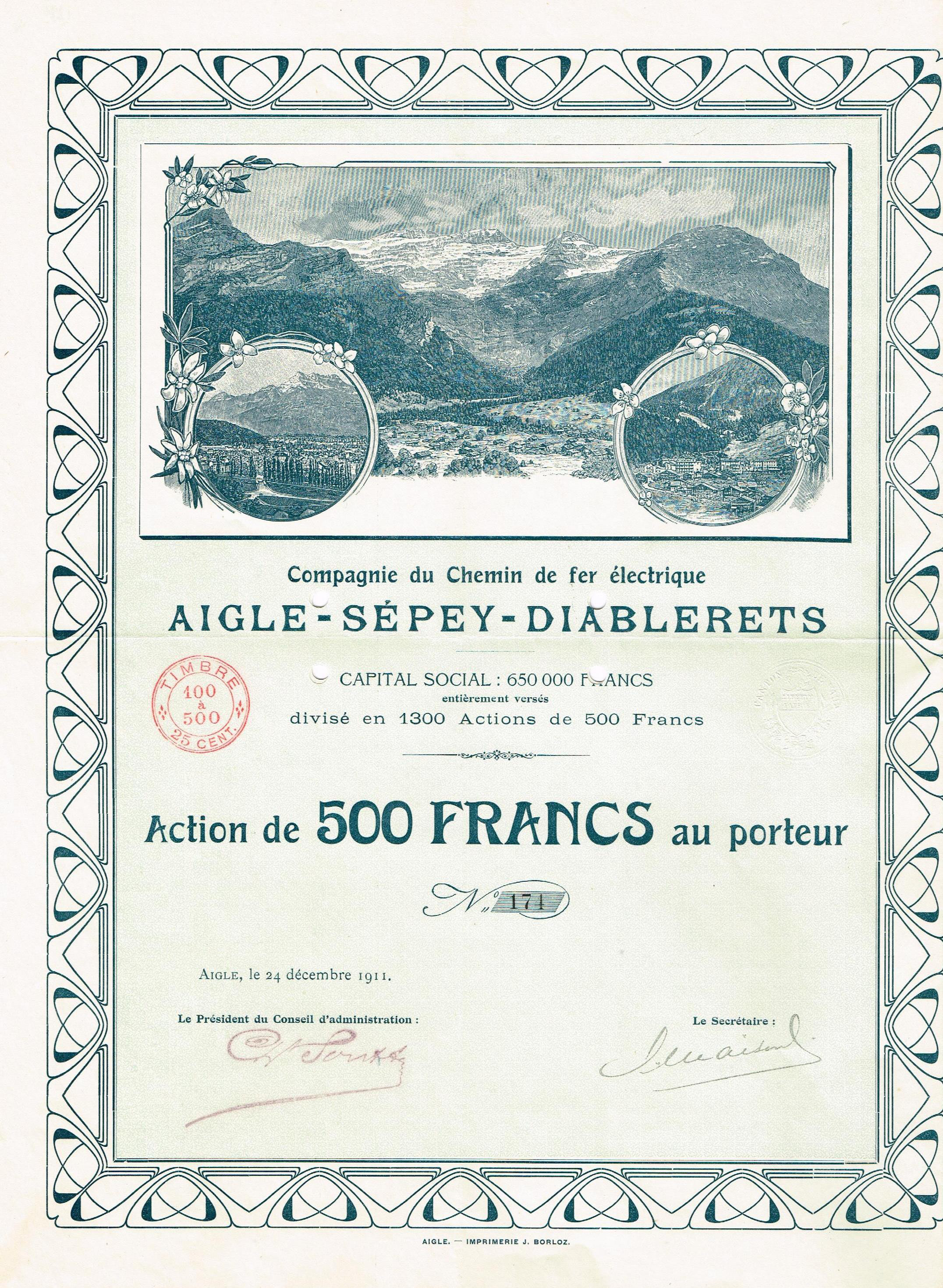 Share of the Compagnie du Chemin de fer électrique Aigle-Sépey-Diablerets, issued 24. December 1911